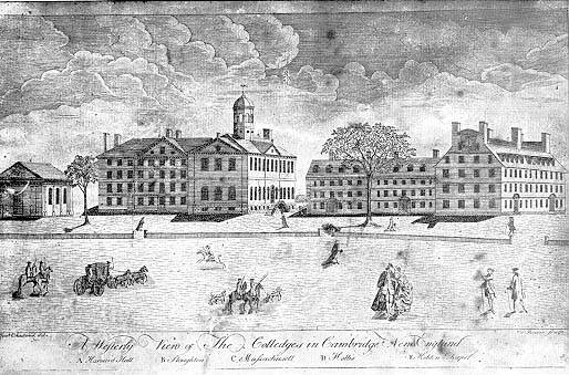 Harvard College